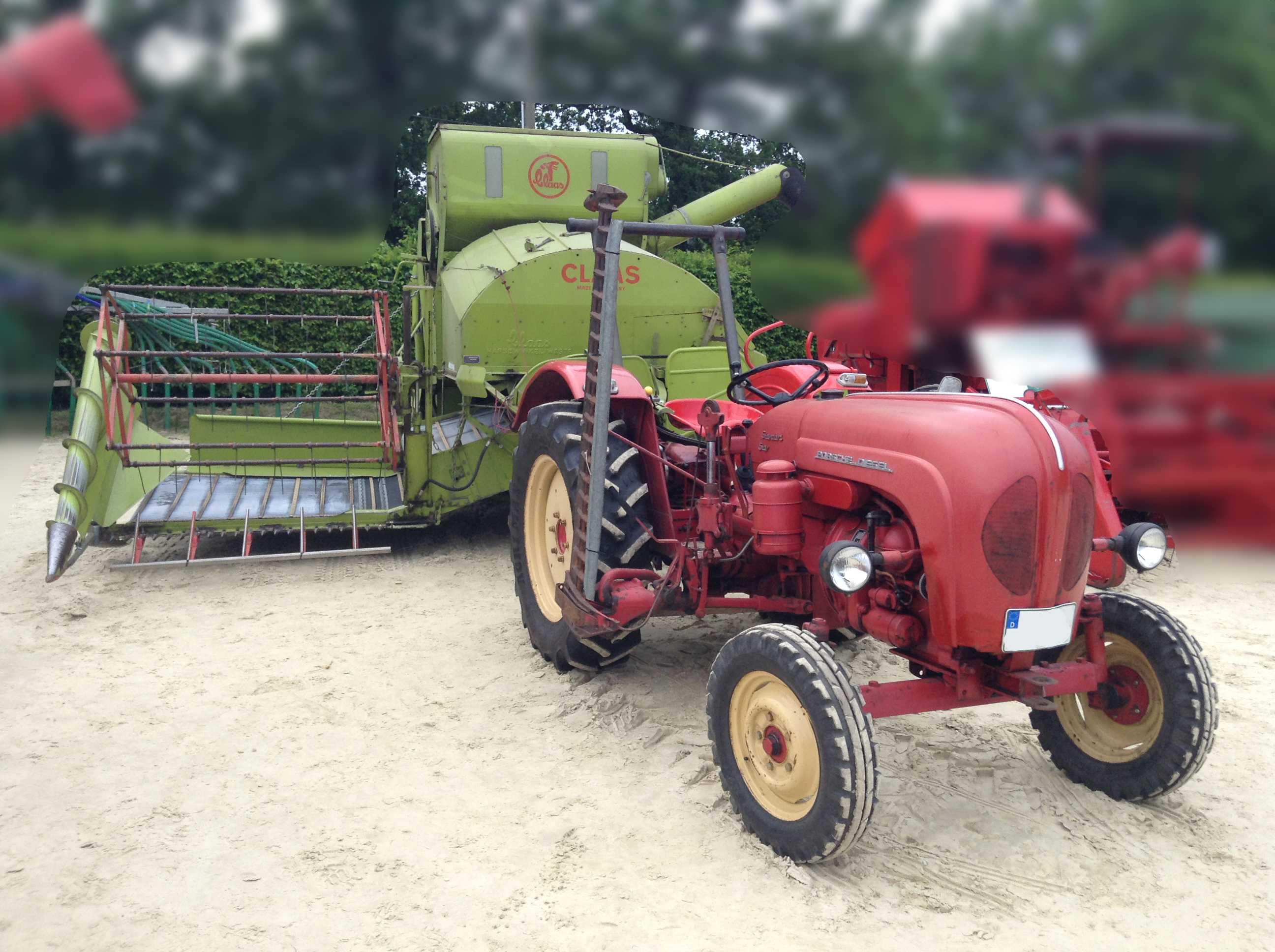 Porsche-Diesel 238 mit Claas Super-Junior Automatic